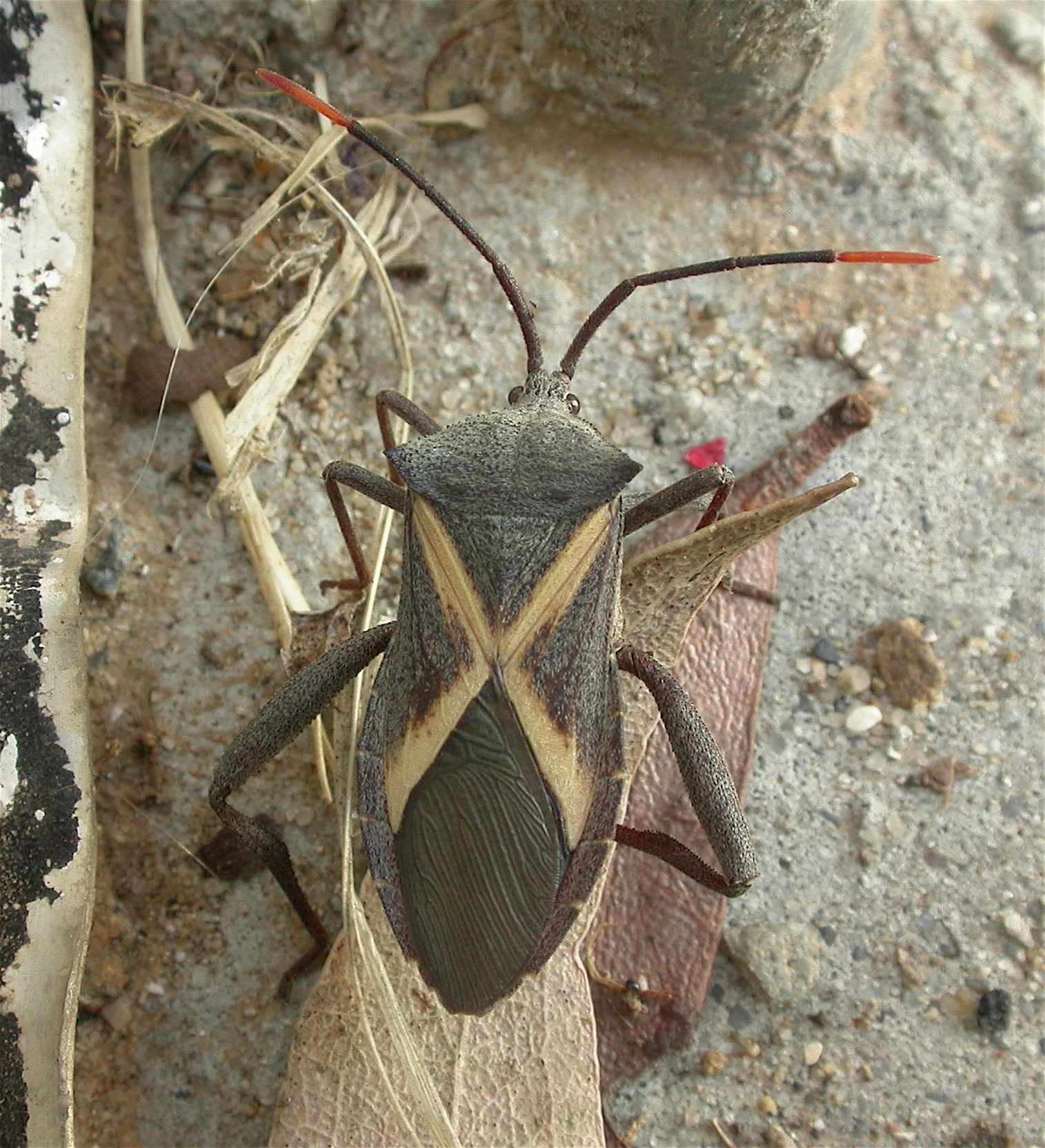 Mictis profana (Fabricius), Black Mountain, Canberra, ACT, 30 January 2009